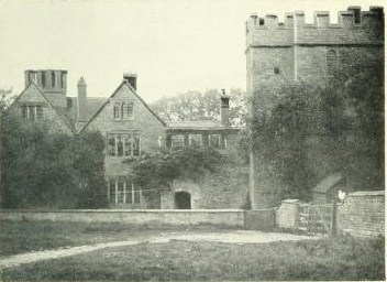 Astwell Castle, Northamptonshire, England (b/w photo)